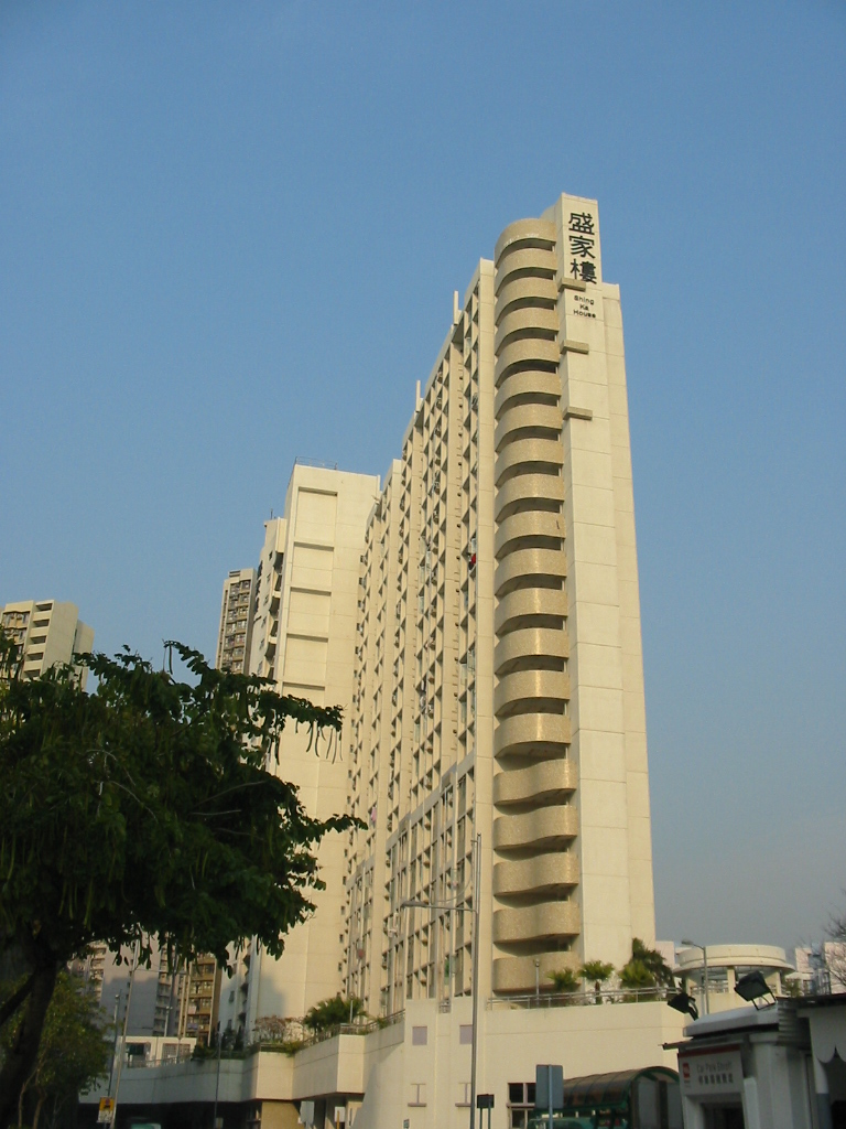 Shing Ka House, Kwai Shing East Estate.